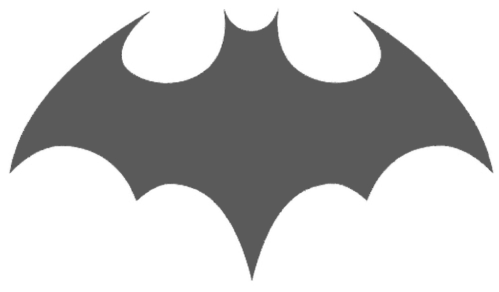 1024 x 700